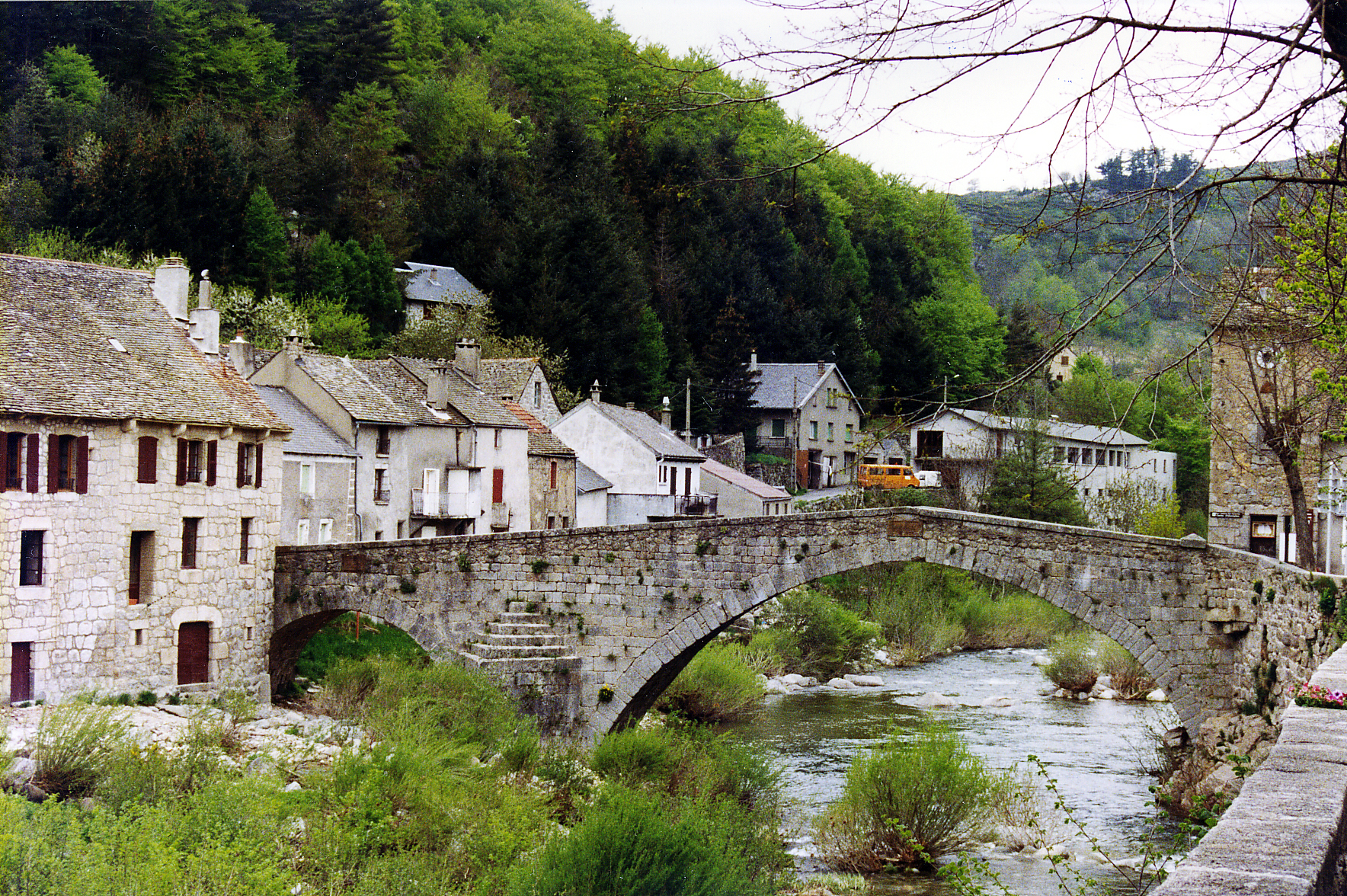 The town of Le Pont de Montvert, Lozère, France. Taken in 1993.